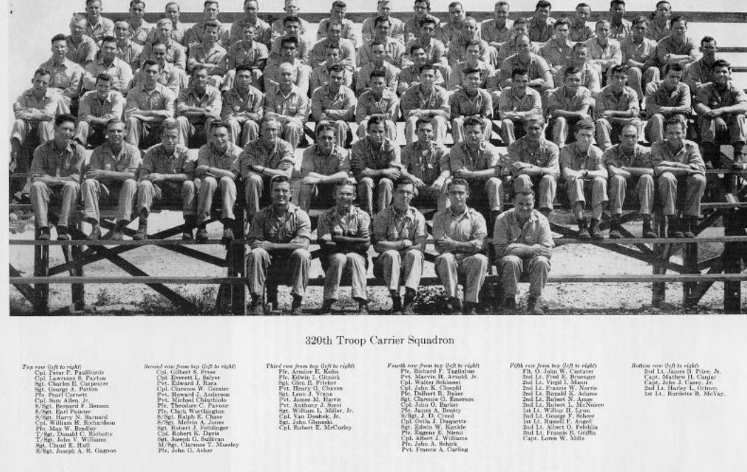 320th Troop Carrier Squadron - Group Photo, Tinian, 1945